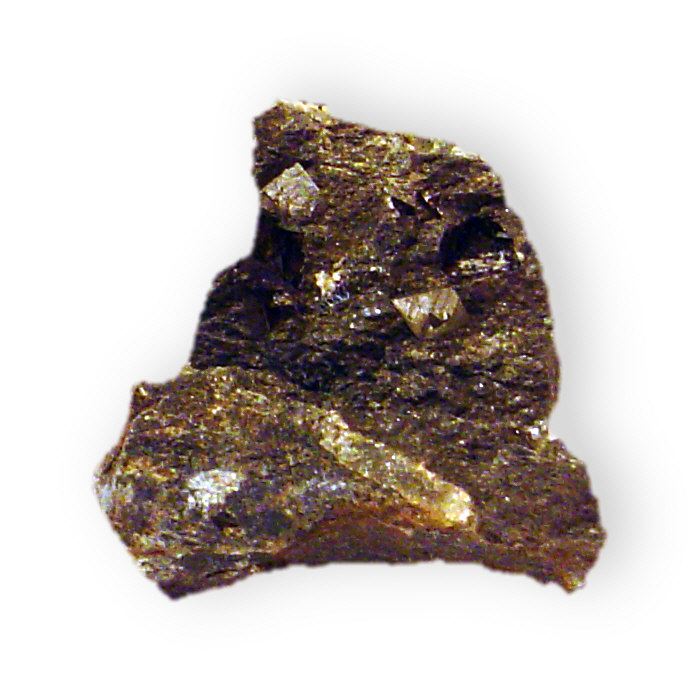 Arsenolite with stibnite Mineral of the Manhattan District, White Caps Mine, Nevada. These mineral images are free to use how you wish.